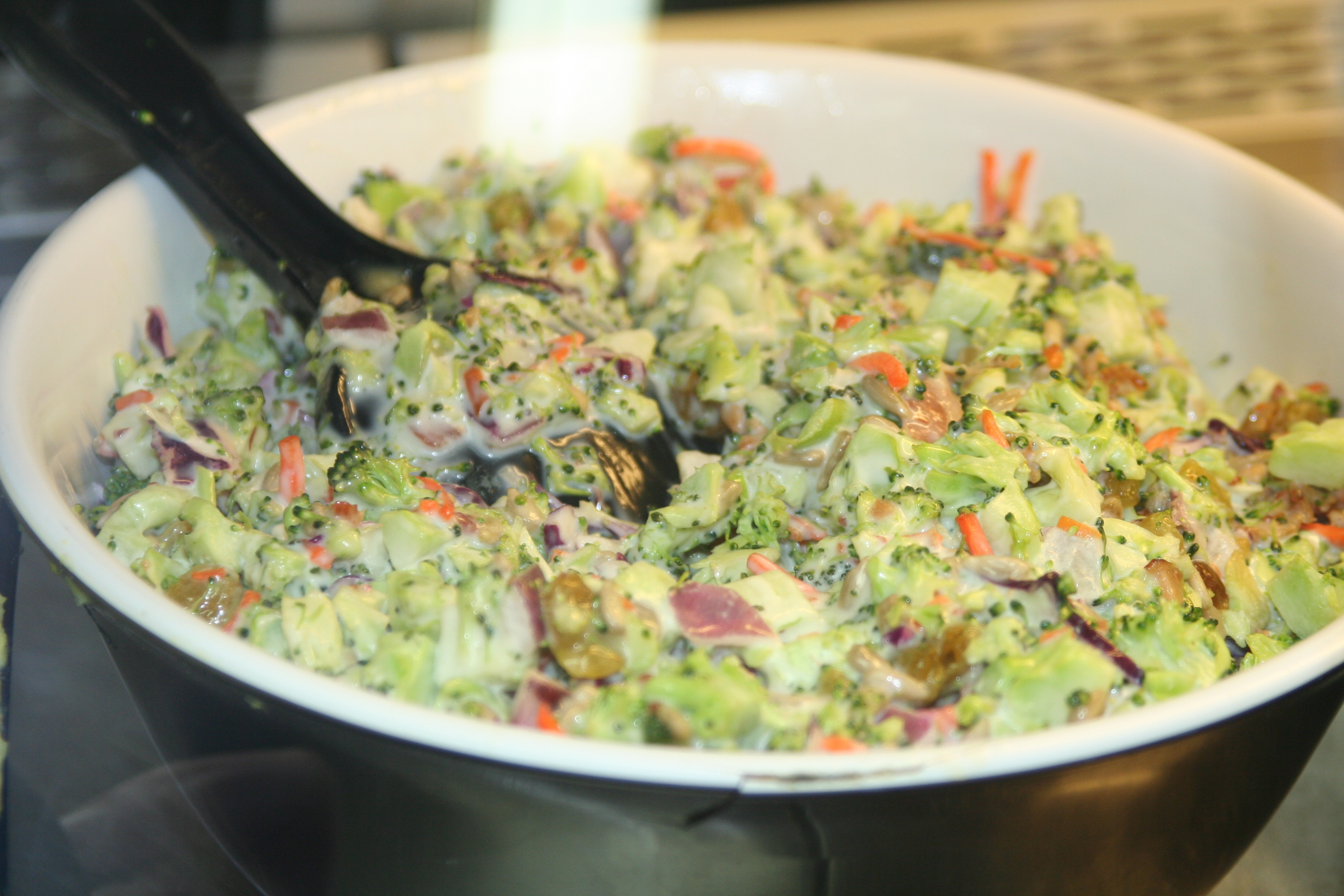 Broccoli Salad from a Minnesota supermarket. Made from broccoli florets, carrots, red onion, cabbage, golden raisins, raw sunflower kernels, and cooked bacon with dressing